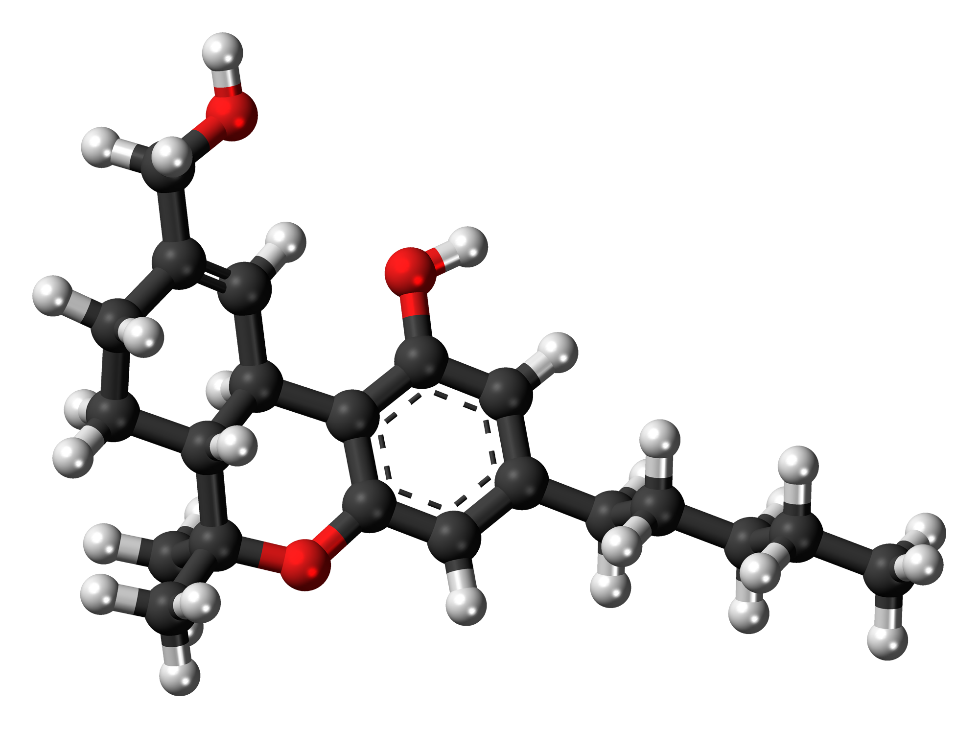 Ball-and-stick model of the 11-hydroxy-tetrahydrocannabinol molecule, also known as 11-hydroxy-THC, a metabolite of THC, which is formed in the body after Cannabis is consumed. Black: Carbon, C White: Hydrogen, H Red: Oxygen, O